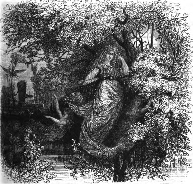 Captioned as "Holda, die gütige Beschüzerin". Holda, the good protectress.